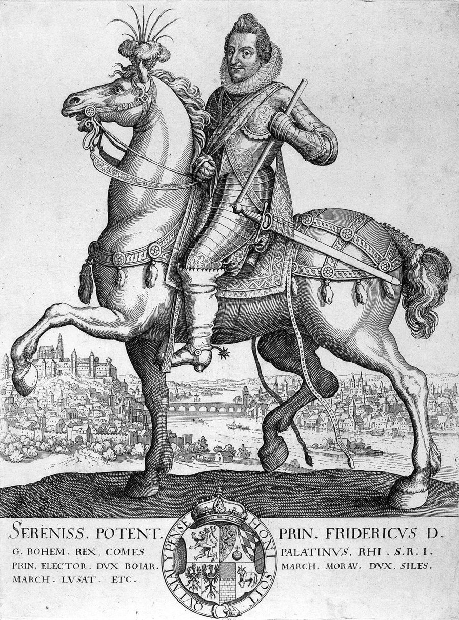 Equestrian portrait of Frederick V, Elector Palatine (1596-1632)